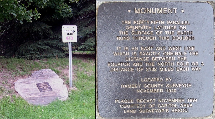 45th parallel north, marker near Cleveland and Loren Streets, Roseville, Minnesota, United States (north of St. Paul and east of Minneapolis)